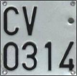 This pic represents the license plate of a motorcycle ("CV" type) in use since 1988 in Vatican City